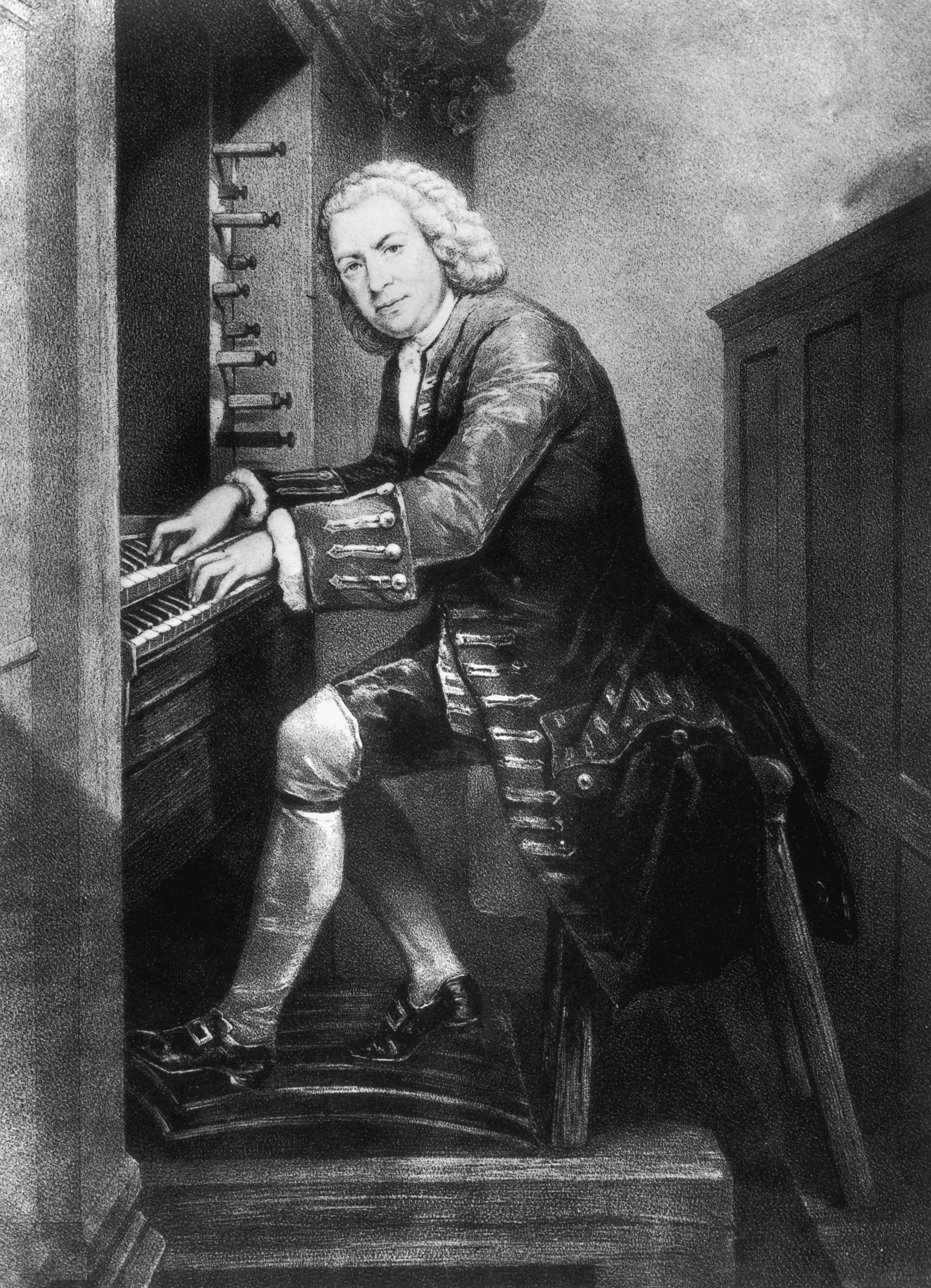 Portrait of J. S. Bach seated at the organ